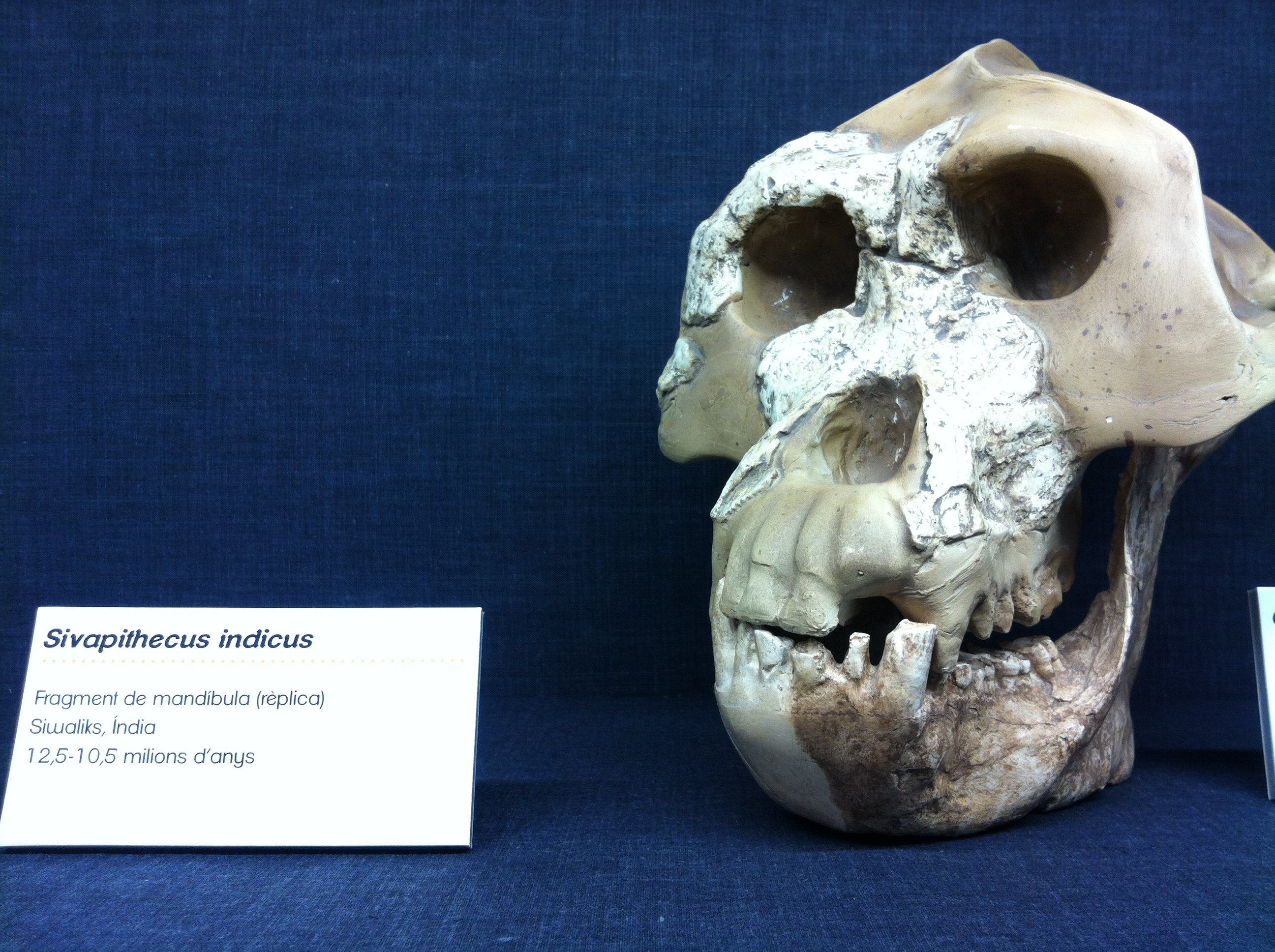 Gairebé humans (in Catalan): Almost humans exhibit at Institut Català de Paleontologia Miquel Crusafont, in Sabadell (Catalonia) 2012-2013